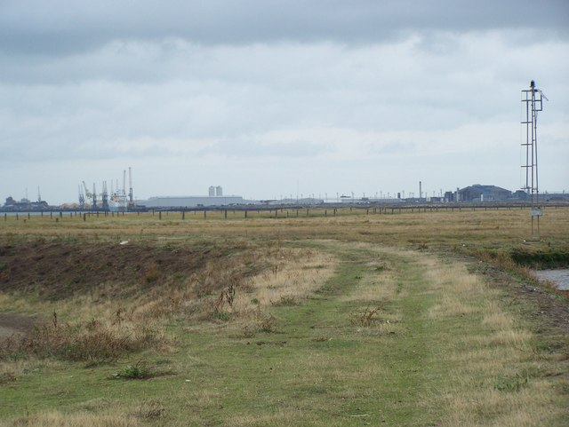 Dead Man's Island and Channel Marker When the Medway shipping area was riddled with contagious diseases - they used to use hulk ships as accommodation ships and put those sufferers on board. Their bodies were then buried at Burnt Wick Island or Dead Man's Island. Note the timber gravestone posts. The tower on the righthand side is part of a series of marker towers. Used by boats entering the Swale from the River Medway. There are lots of dangerous mudflats, either side. The Isle of Grain industrial area is in the background.